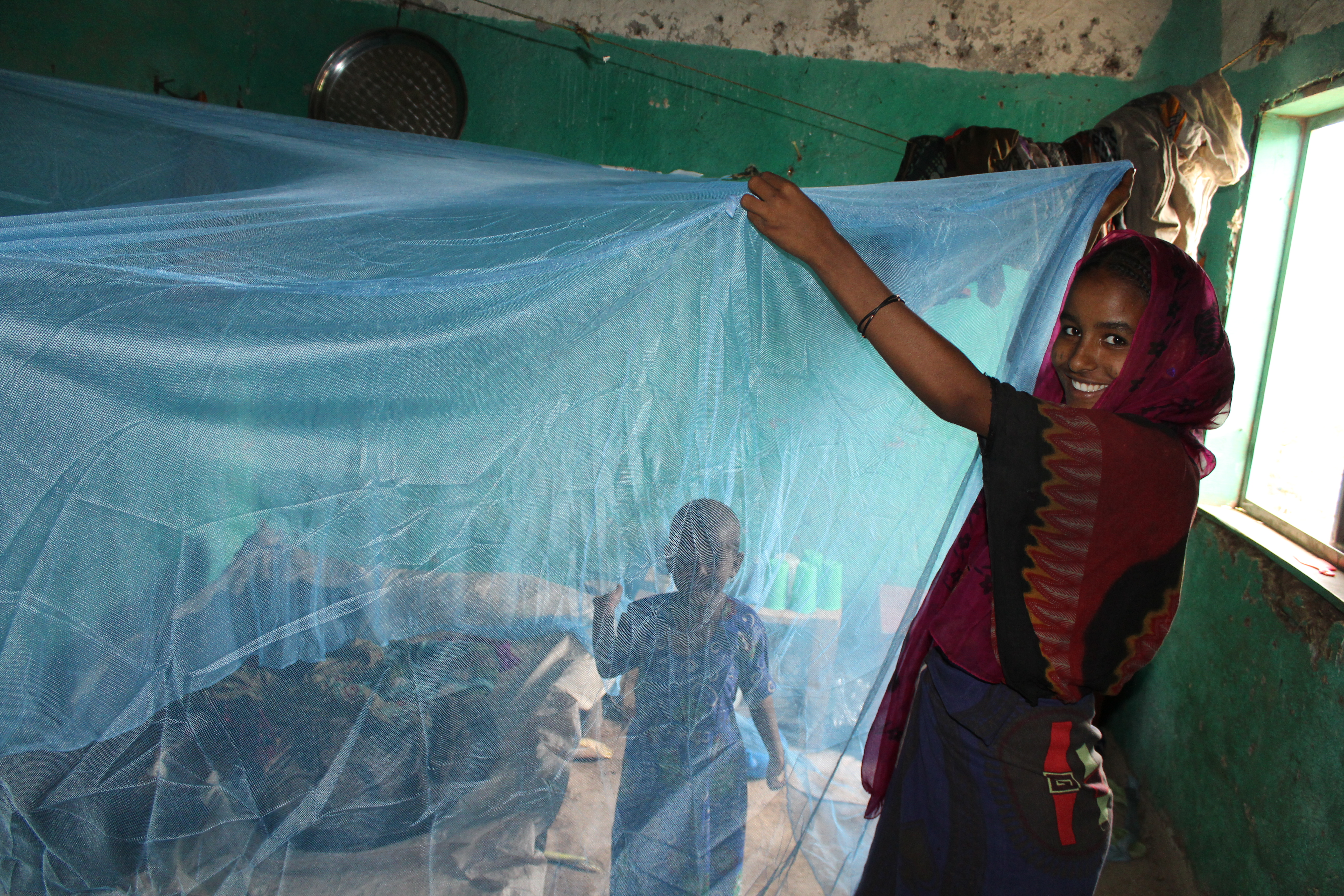 GHSC-PSM worked together with the Ethiopian government structures at different levels to efficiently and effectively distribute over 4.1 million long lasting insecticide-treated nets (LLINs) in four regional states of the country in less than two months. Fatima Mohammed Ali is very happy that she went to receive the nets from the health post in her village and she did not waste time to receive the nets. She said it was fast and the health extension workers were very courteous. GHSC-PSM together with the Amhara regional state government organized orientation and planning sessions involving health extension workers to ensure effective distribution of nearly 1.5 million nets in Amhara State. Credit: Firew Bekele